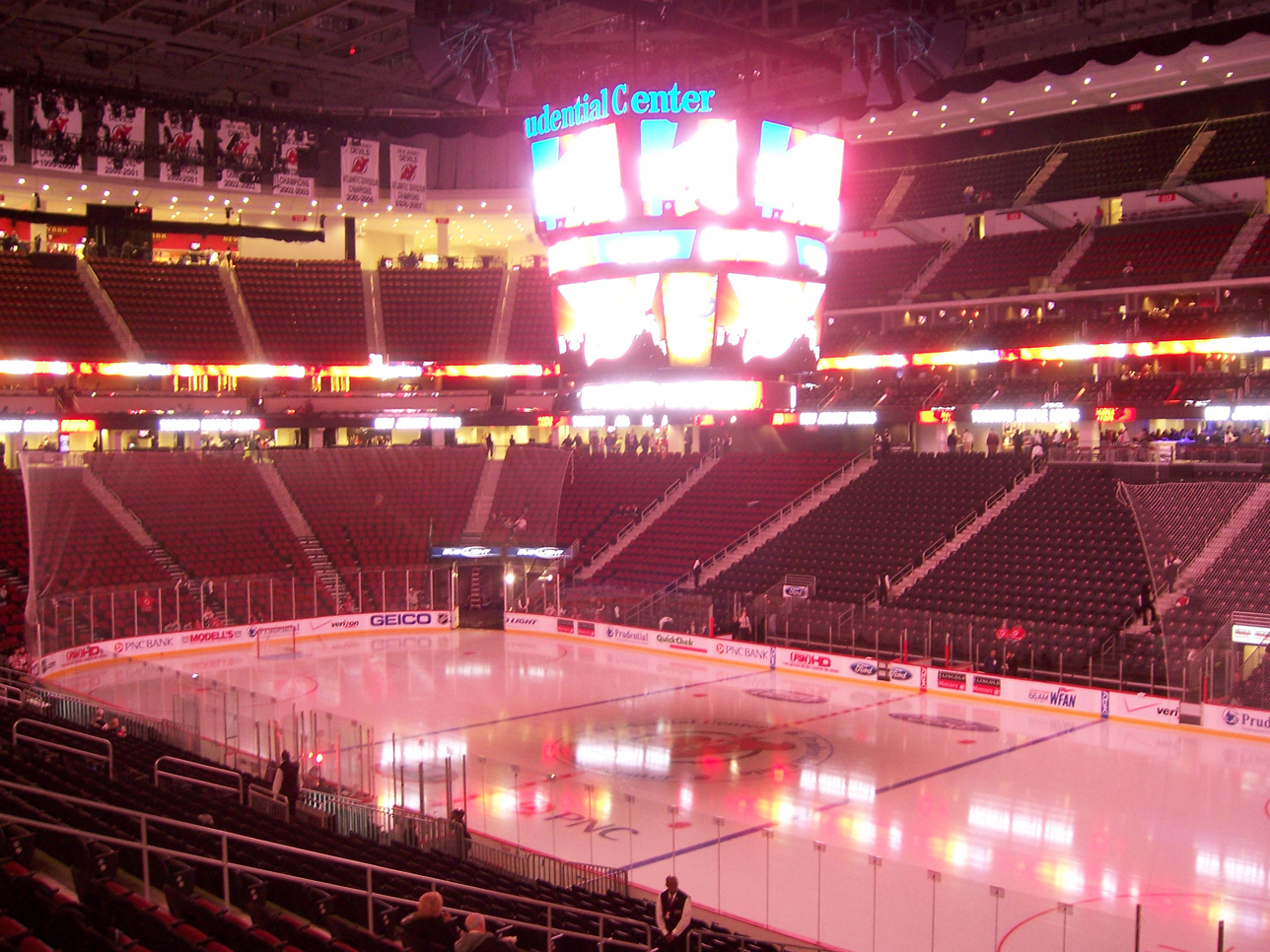 Seating levels of Prudential Center